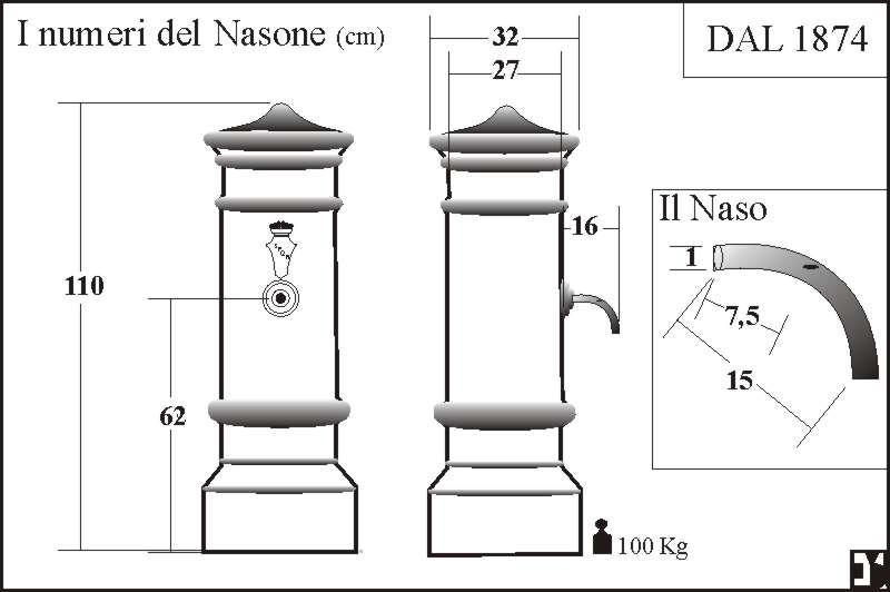 Technical schematics of a nasone fountain common in Rome